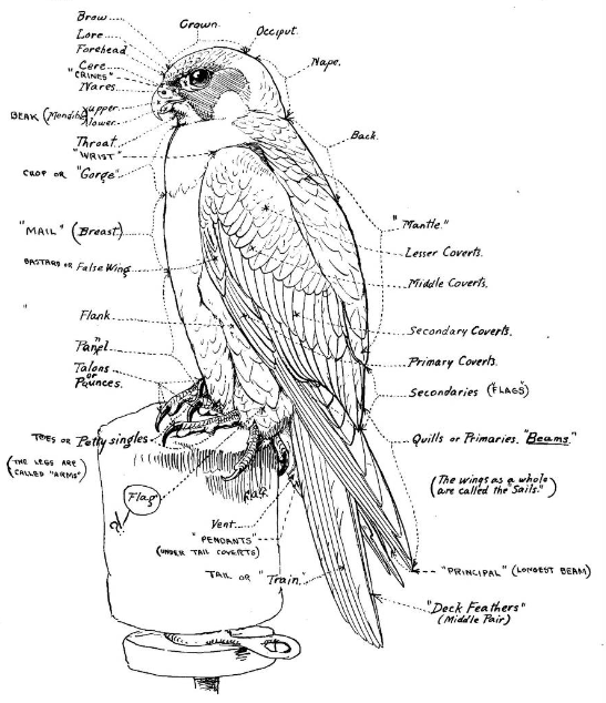 Chart giving falconers' names for the parts of a hawk.